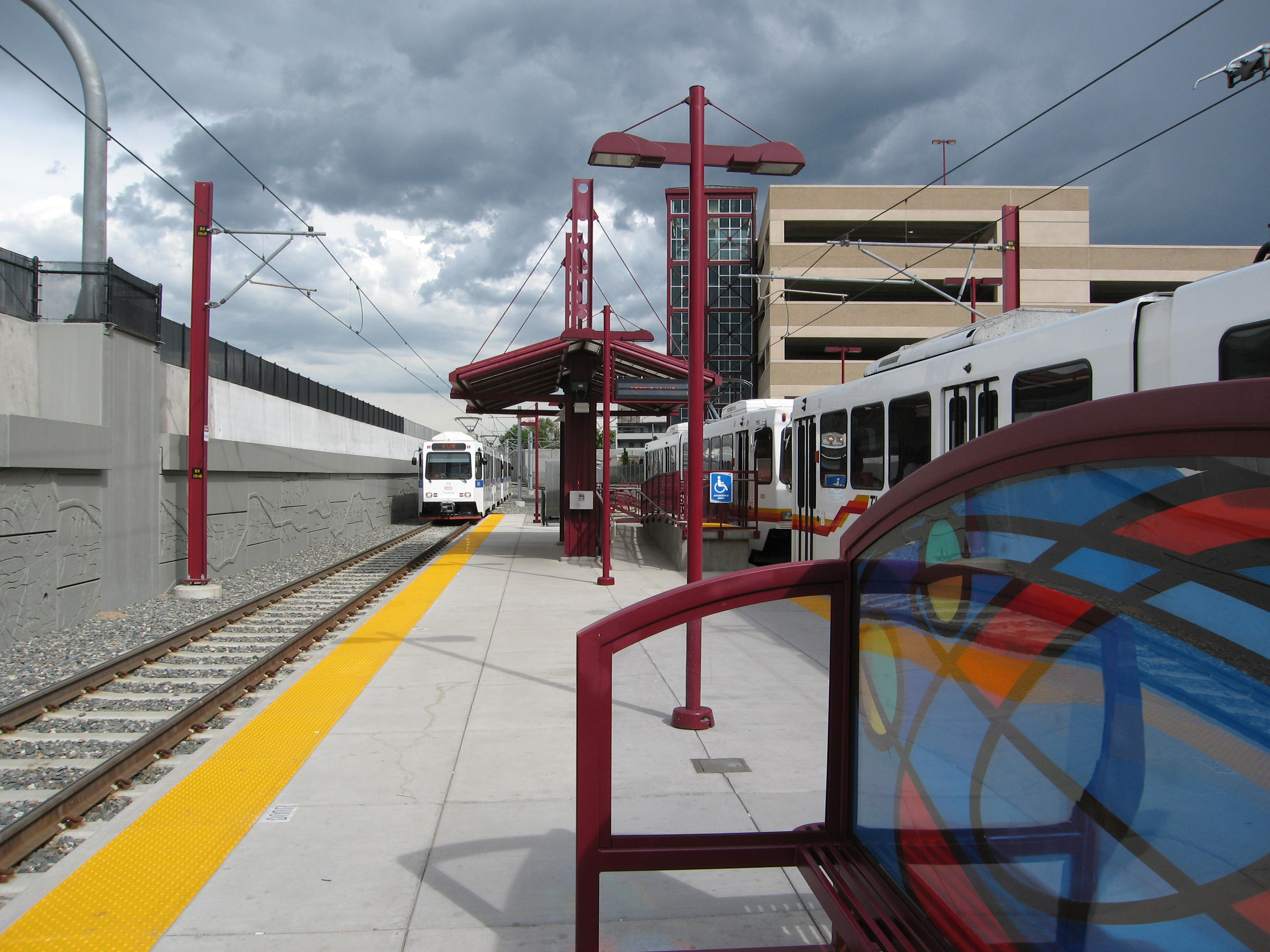 Personally taken by me (MobyLL), with a digital Camera, May 20, 2007 The art work was created by Mr. John Goe.